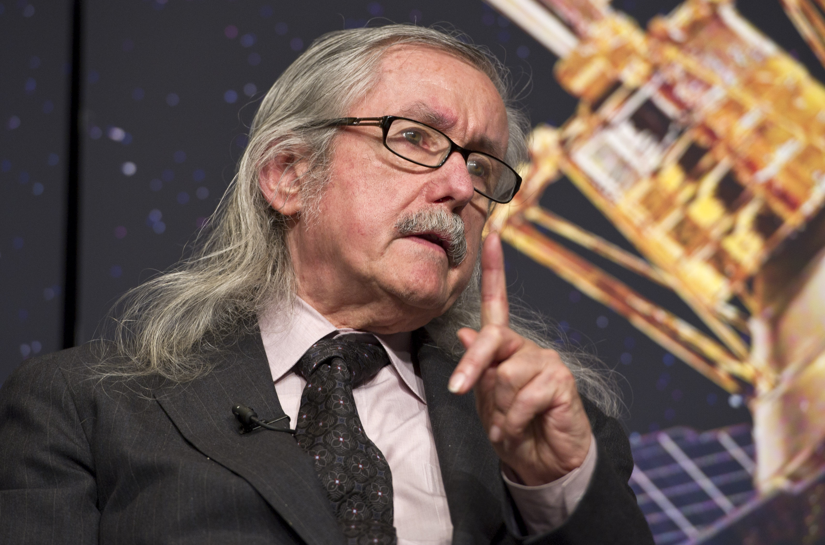 Francis Everitt, Principal Investigator for the Gravity Probe B Mission at Stanford University, makes a point during a press conference, Wednesday, May 4, 2011, to discuss NASA's Gravity Probe B (GP-B) mission which has confirmed two key predictions derived from Albert Einstein's general theory of relativity, which the spacecraft was designed to test at NASA Headquarters in Washington. The experiment, launched in 2004, used four ultra-precise gyroscopes to measure the hypothesized geodetic effect, the warping of space and time around a gravitational body, and frame-dragging, the amount a spinning object pulls space and time with it as it rotates. Photo Credit: (NASA/Paul E. Alers)